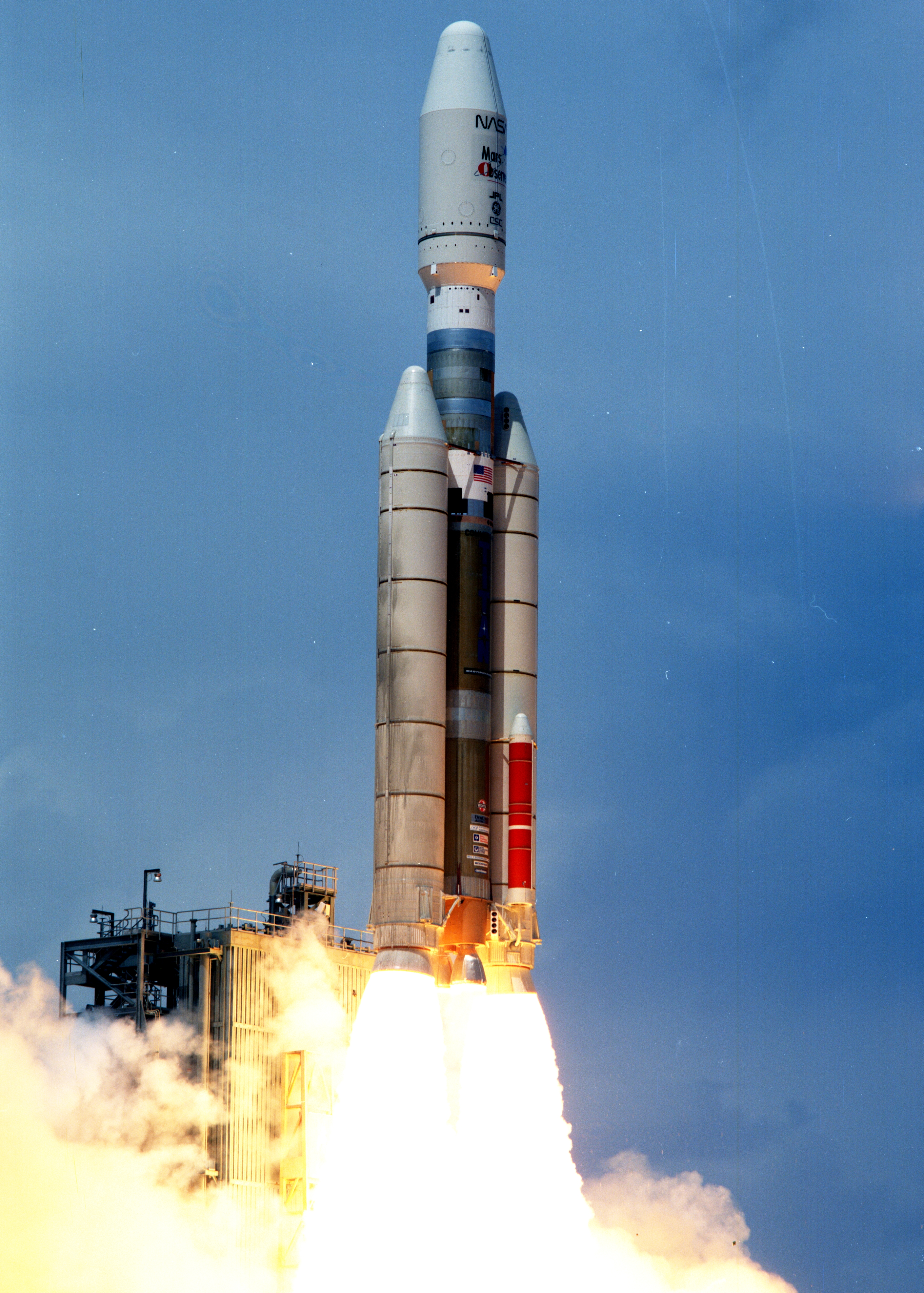 Commercial Titan 3 launching Mars Observer (Sept. 25, 1992) *original image source: Titan III vehicle launched the Mars Observer spacecraft and the Transfer Orbit Stage (TOS) from the Cape Canaveral Air Force Station on September 25, 1992. Managed by the Marshall Space Flight Center (MSFC), TOS will fire to send the Observer on an 11-month interplanetary journey to the Mars. The Observer failed to reach the Mars orbit in August 1993. *image ---- *Bigger version of the photo from the “Human Spaceflight Web Gallery”. * *Orginal caption released with the photo: S92-46925 (25 September, 1992) --- NASA's Mars Observer spacecraft rides a Titan 3/Orbital Stage booster toward its mission to Mars. Liftoff occurred at 1:05 p.m. (EDT), September 25, 1992. *Premission